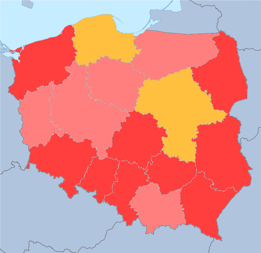 Data is from Eurostat